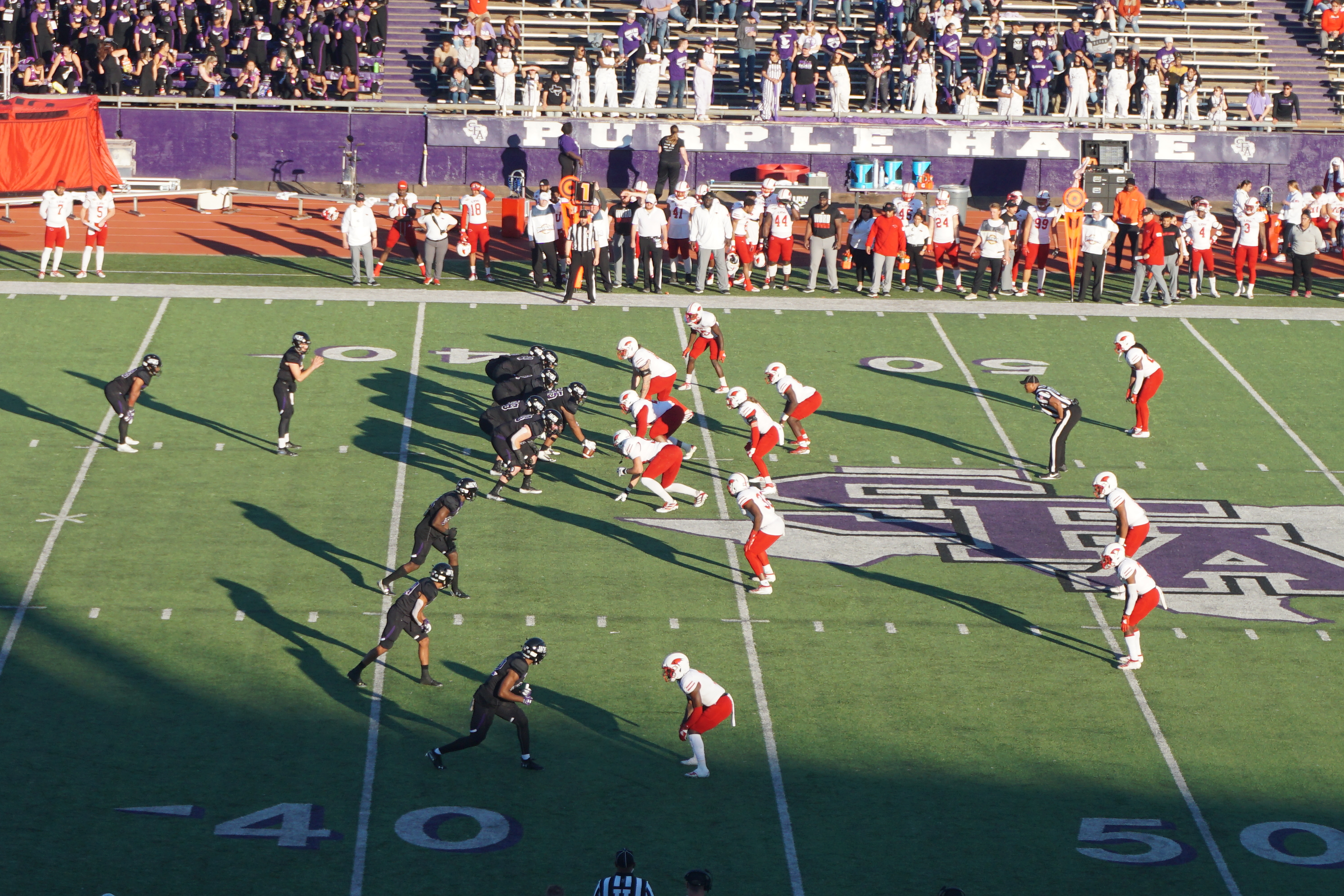 Stephen F. Austin on offense during the Incarnate Word Cardinals vs. Stephen F. Austin Lumberjacks football game at Homer Bryce Stadium in Nacogdoches, Texas (United States). Stephen F. Austin won 31–24.